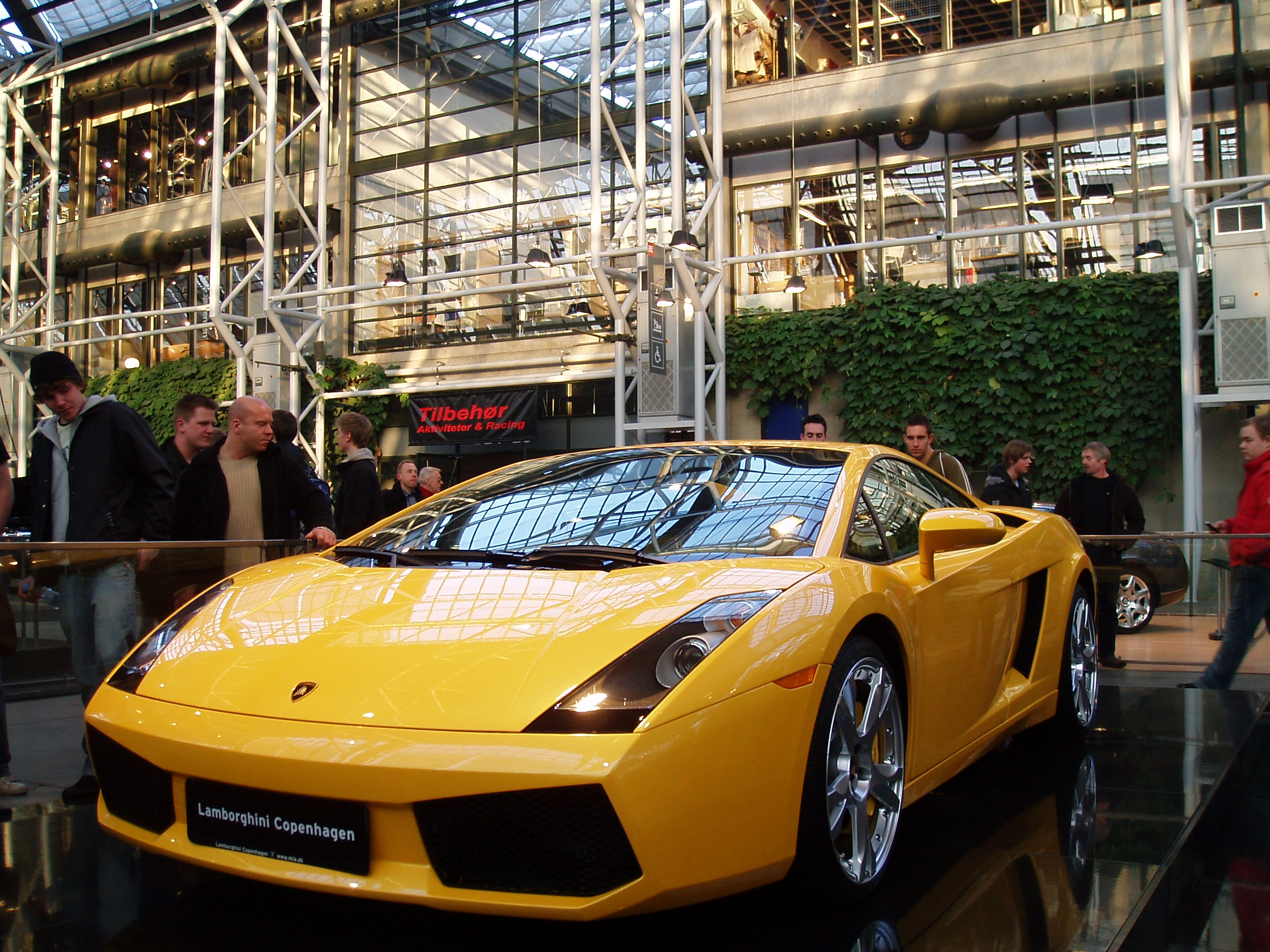 Lamborghini Gallardo photographed at car show in Bella Center.